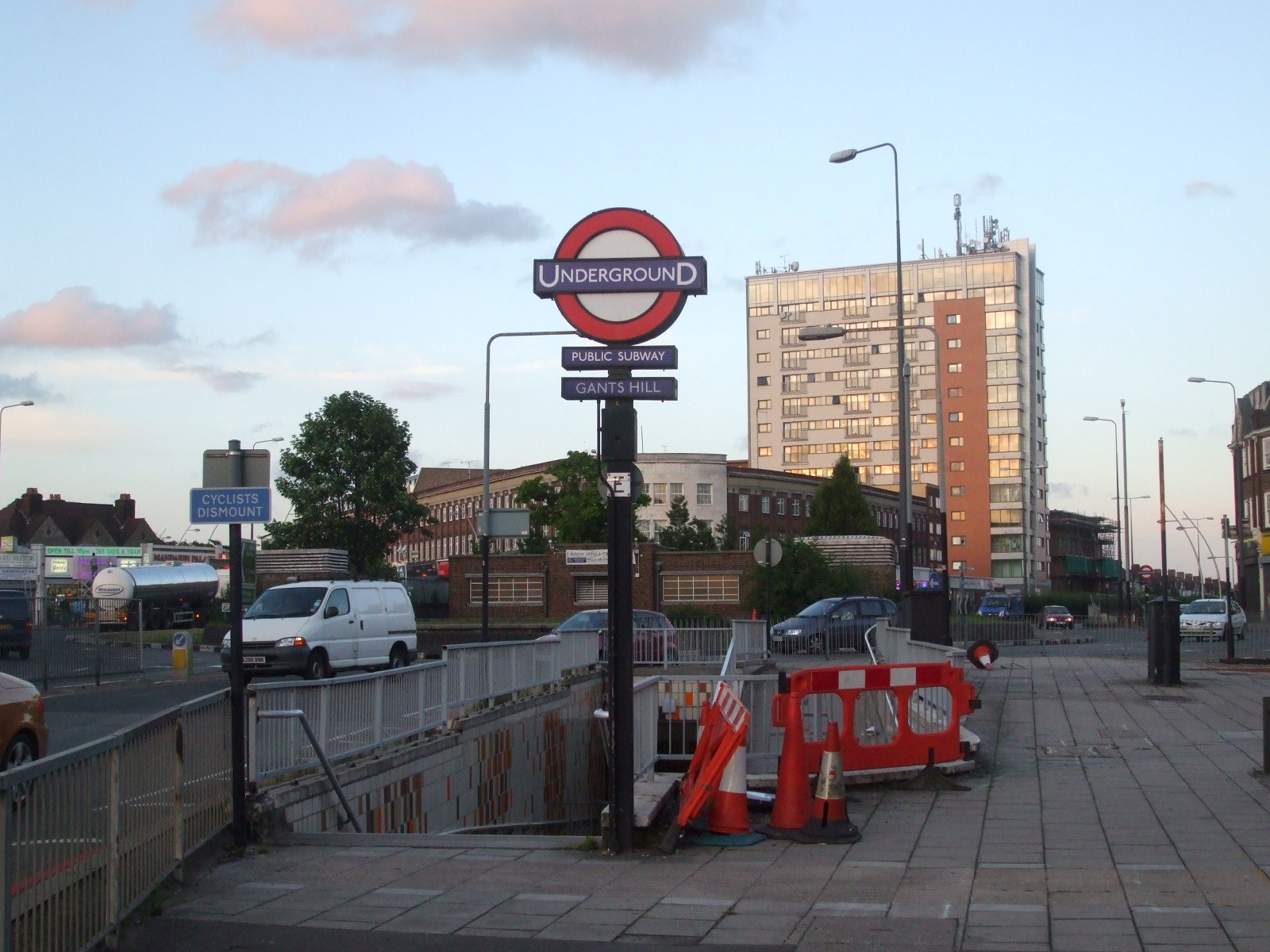 Gants Hill tube station southwest entrance, with the newly refurbished City Gate House tower block (now residential) in the background. This entrance lies in between the A12 Eastern Avenue (on the left) and Clarence Avenue. The station itself lies directly beneath Gants Hill roundabout.